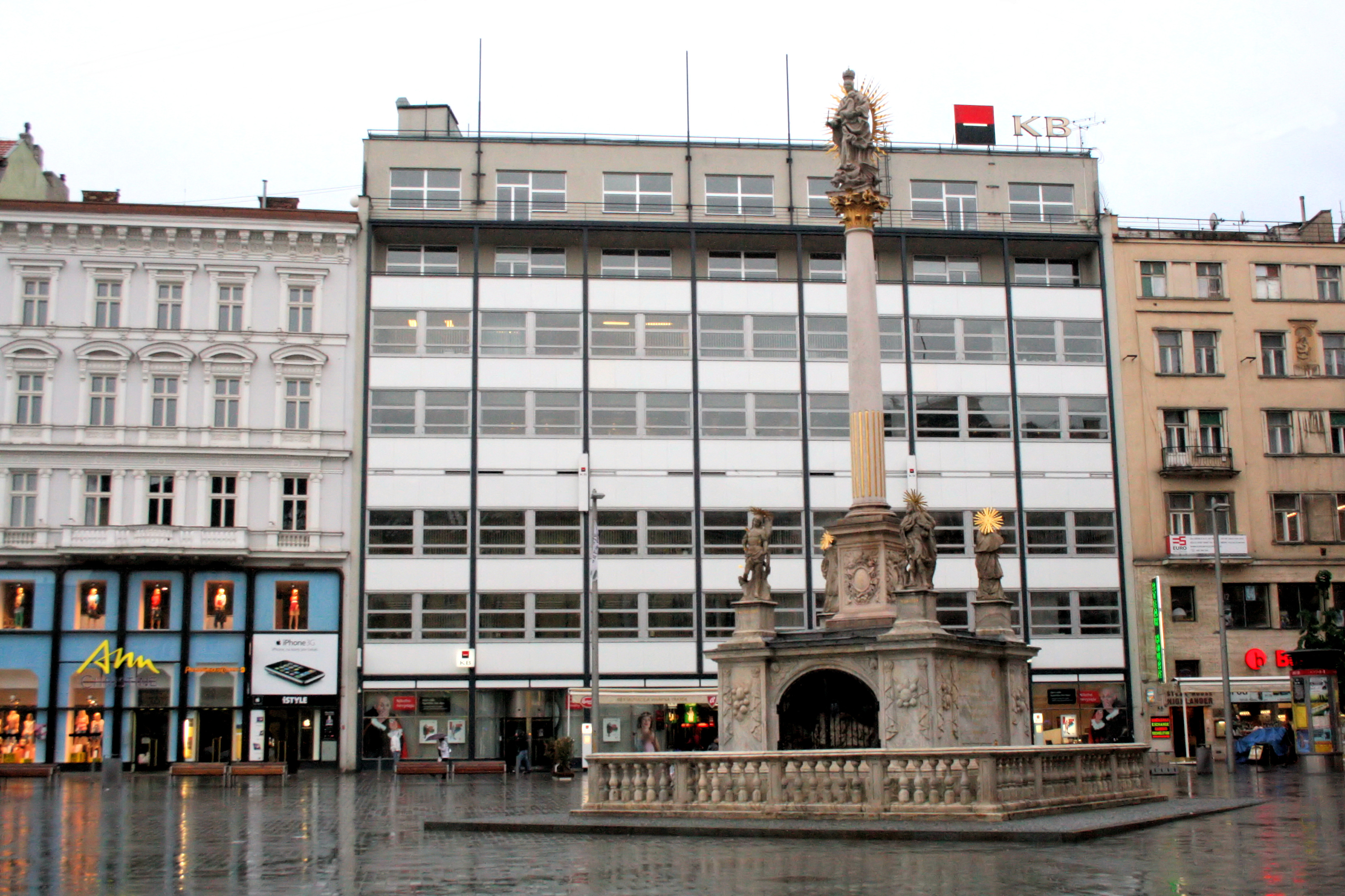 Marian column and functionalist building of the Moravian bank, by Bohuslav Fuchs & Ernest Wiesner. Náměstí Svobody (Freedom Square), Brno, Czech Republic.